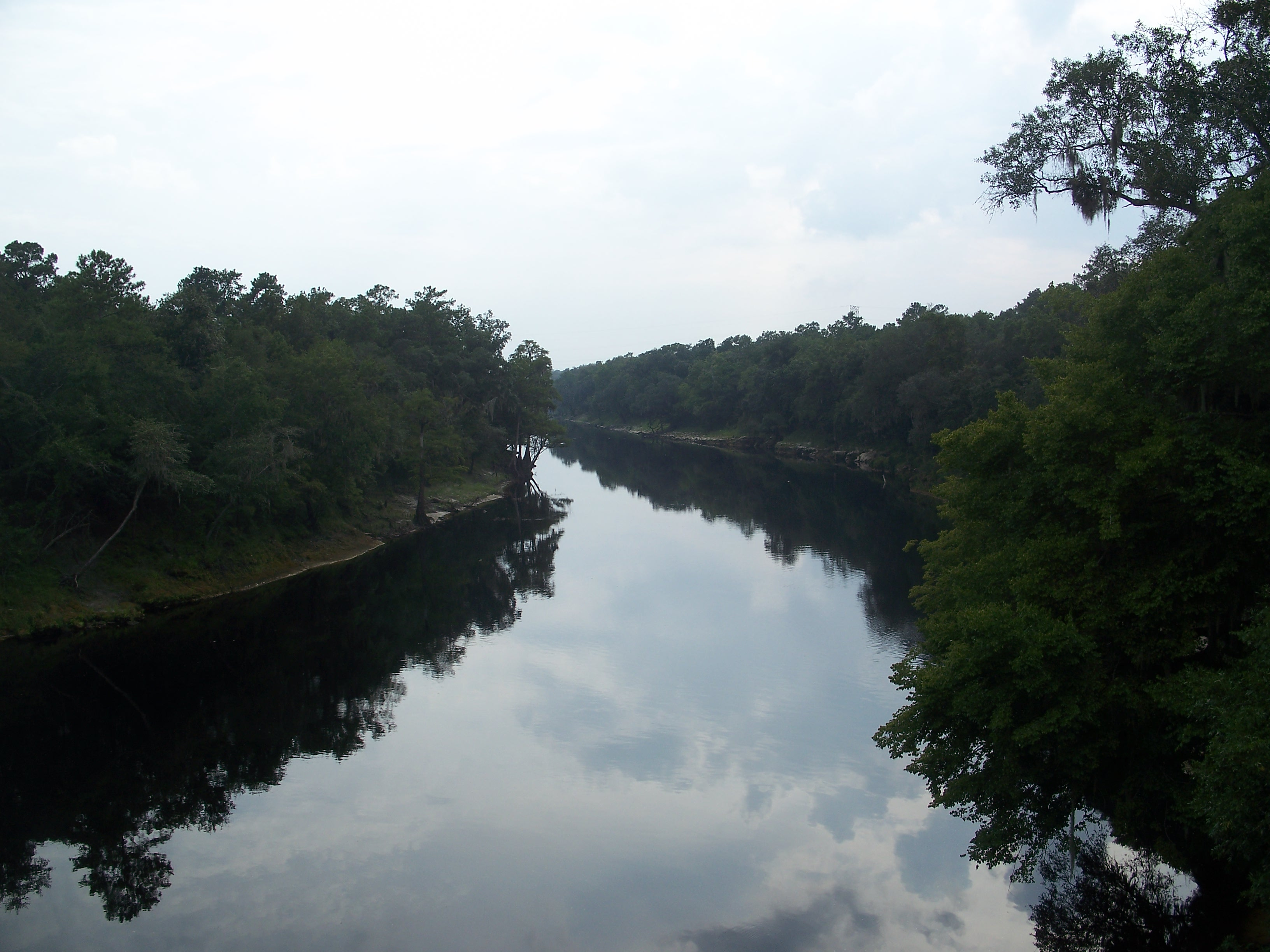 Ellaville, Florida: Suwannee River, at US 90 bridge